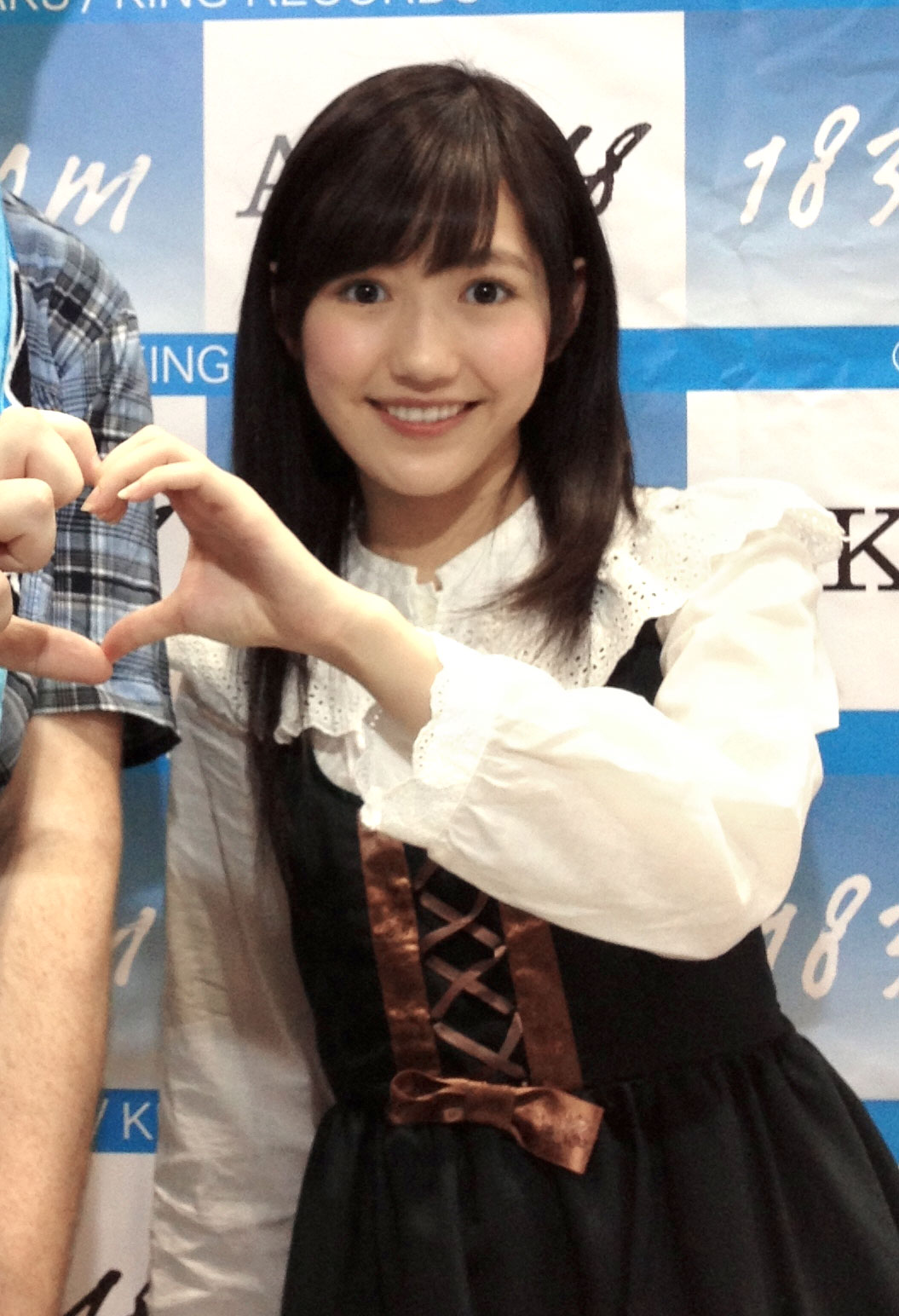 Mayu Watanabe at AKB48 1830m handshake event, on October 14, 2012